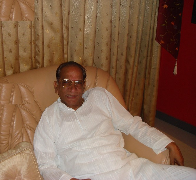 I took this picture of Shri P.V.Rangayya Naidu during one of his sessions with the youth to promote political and social awareness.